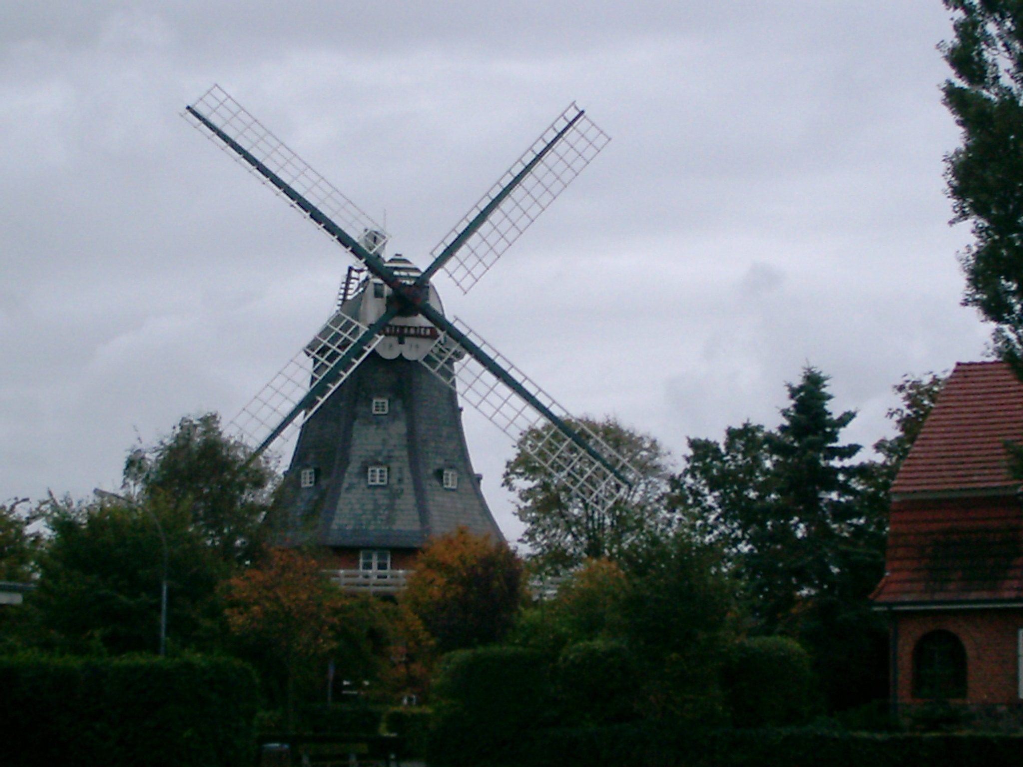 Wind mill at Fõhr at North Frisian Islands in Schleswig-Holstein, Germany.